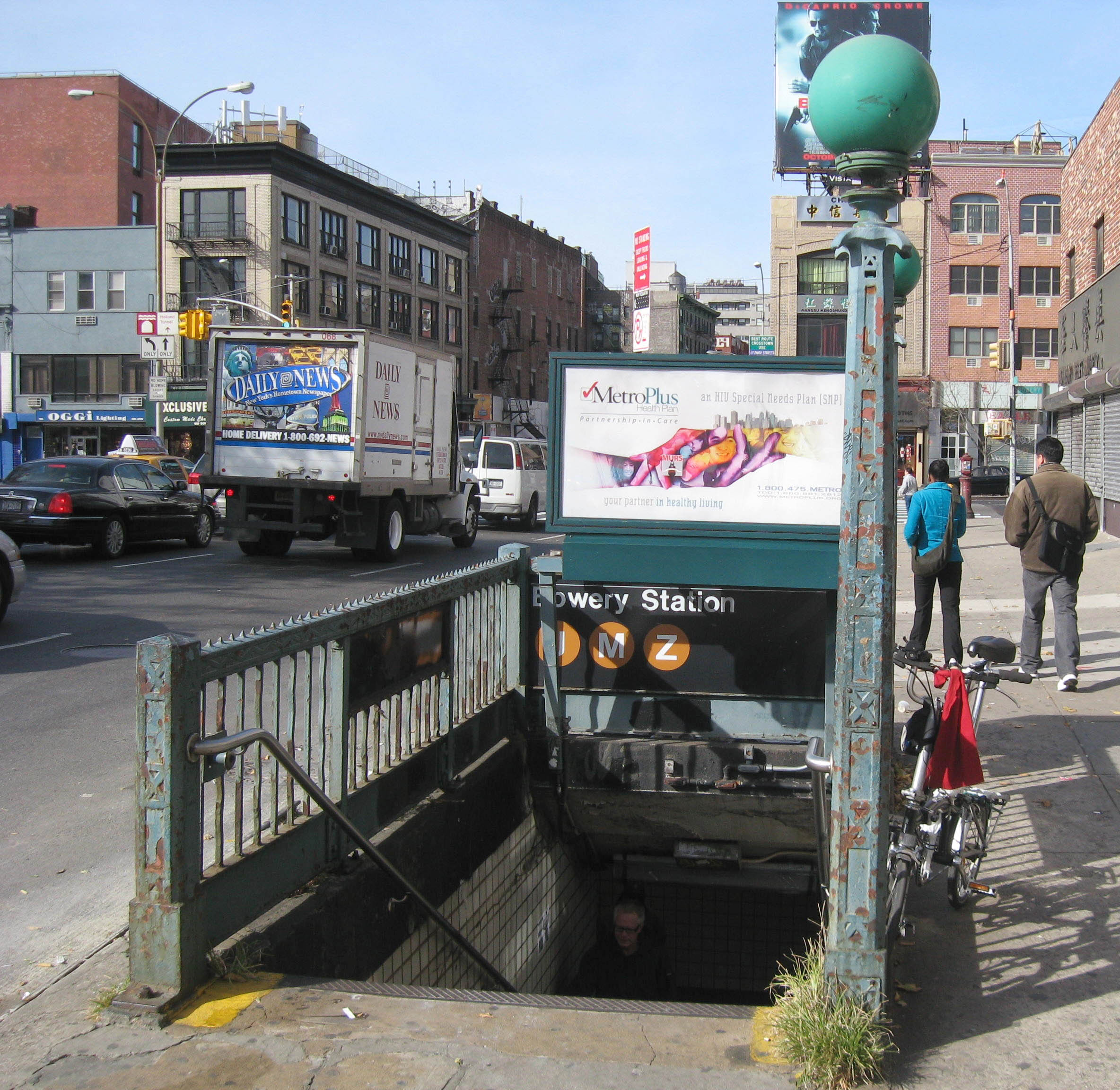 Looking west along Delancey Street at Bowery (BMT Nassau Street Line) station on a sunny late morning